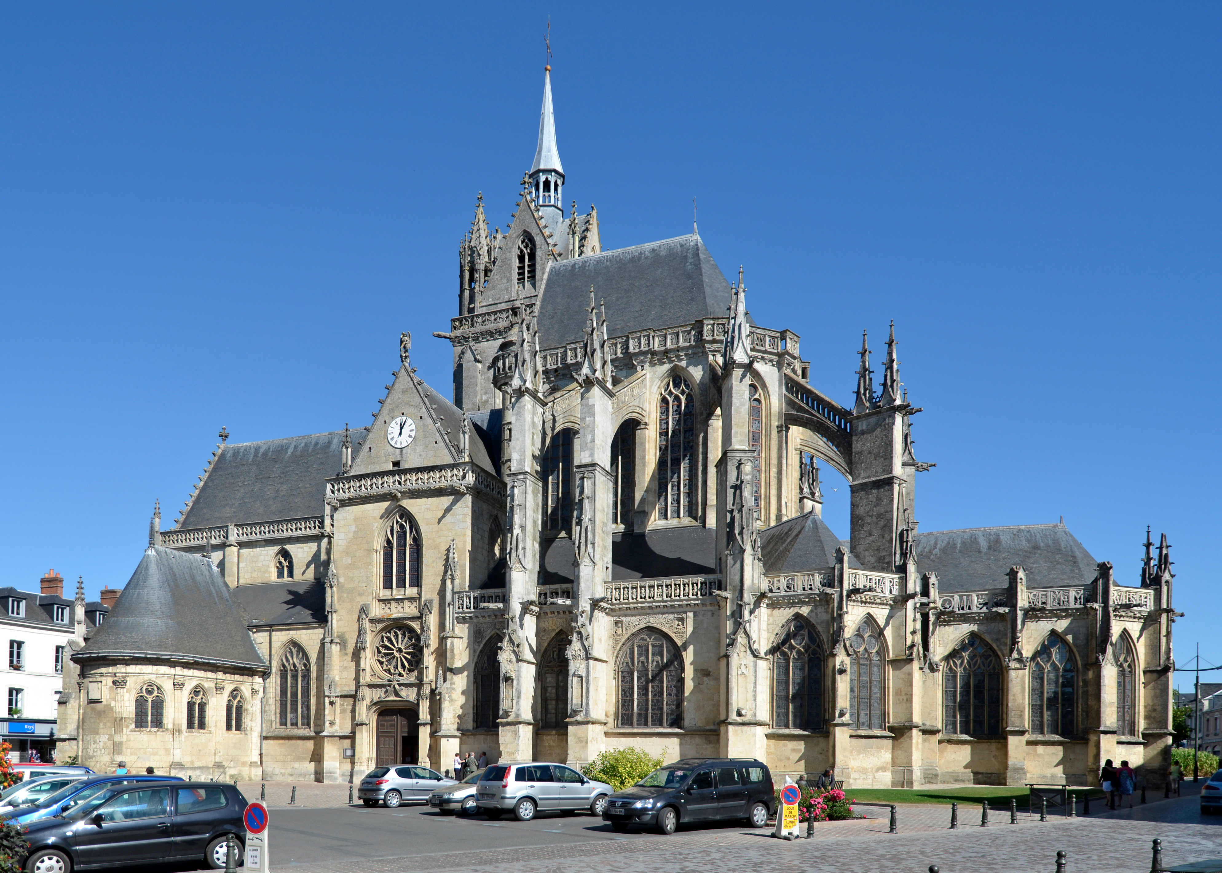 Notre-Dame-des-Marais church - La Ferté-Bernard, Sarthe, France .